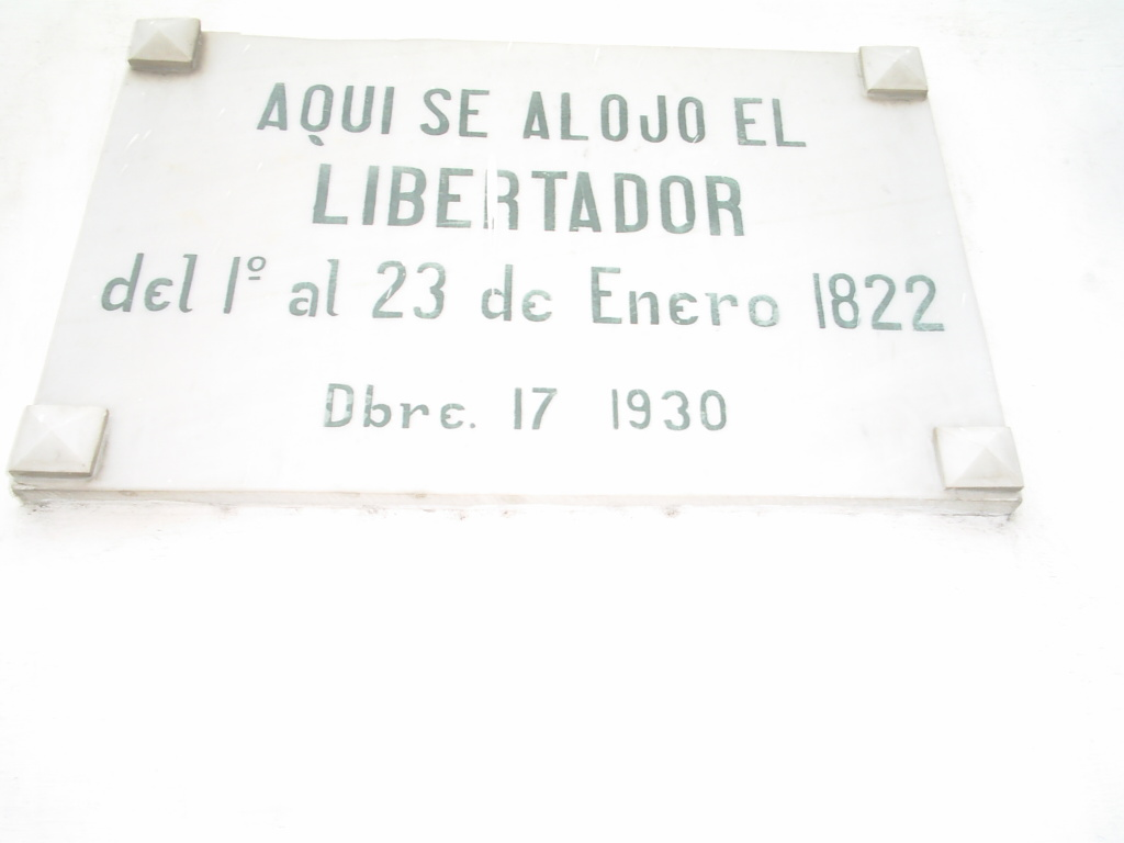 Plaque of Simon Bolivar